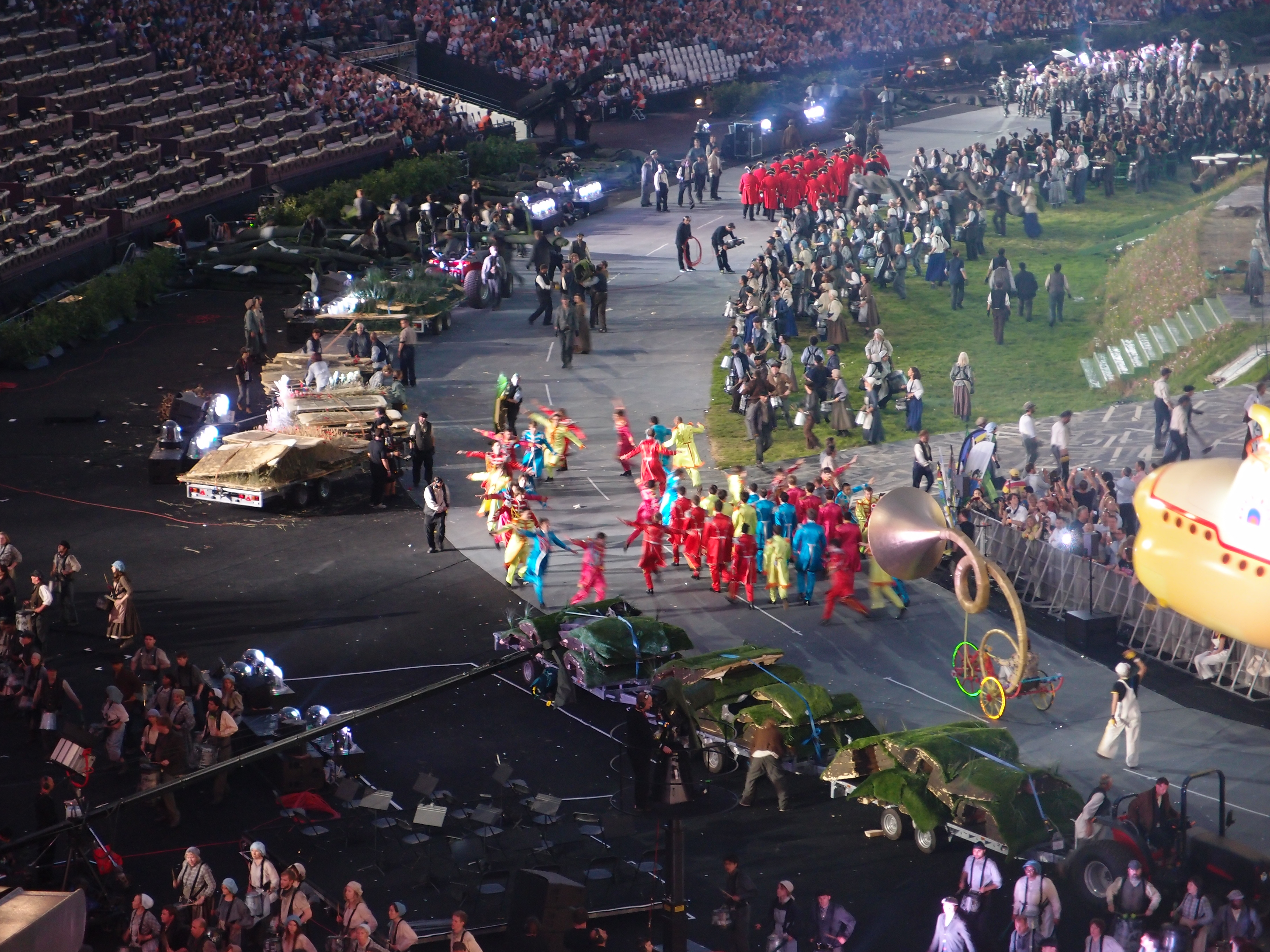 2012 Summer Olympics opening ceremony. With a reference to Sgt. Pepper's Lonely Hearts Club Band.